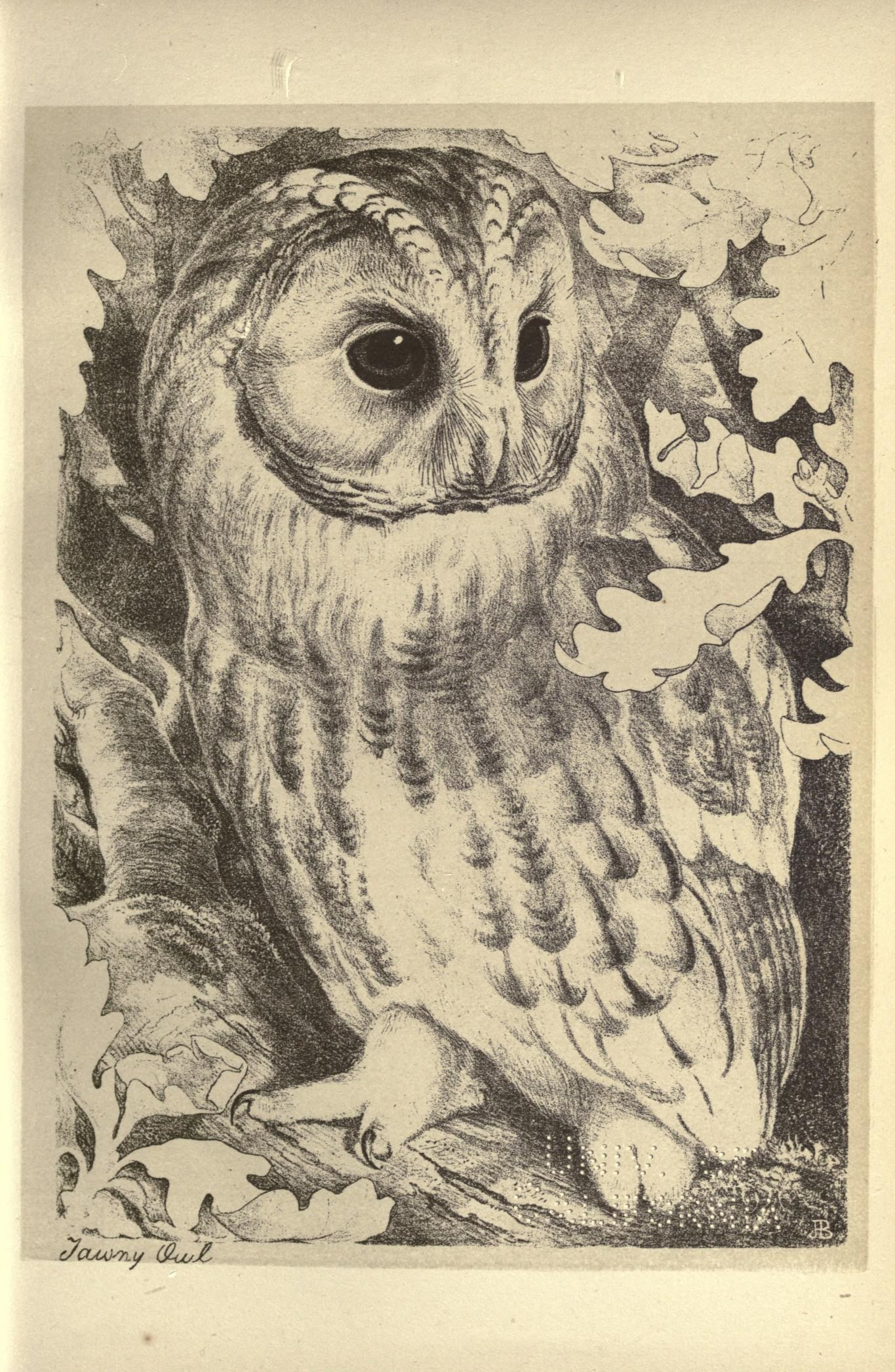 Birds from Moidart and elsewhere / [by] Mrs. Hugh Blackburn.